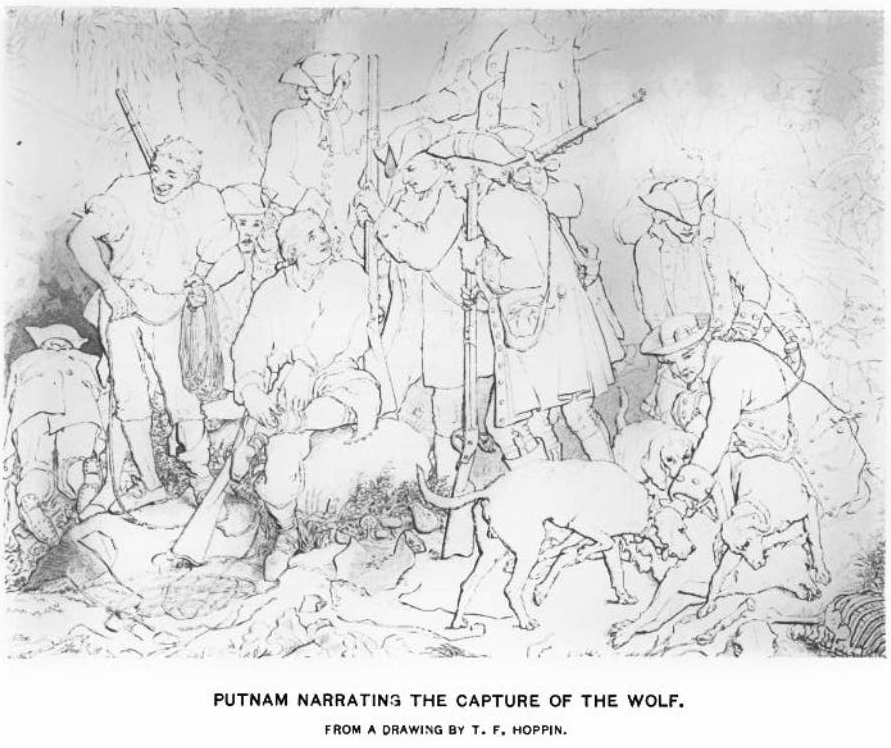 A drawing of Israel Putnam narrating the capture of the wolf, from From: William Farrand Livingston, "Israel Putnam: pioneer, ranger, and major-general, 1718-1790" (G. P. Putnam's sons, 1901), pg. 14a